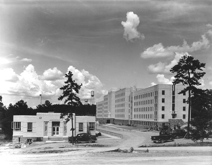 The Arkansas State Tuberculosis Sanatorium — in Booneville and within the the Arkansas Tuberculosis Sanatorium Historic District, in Logan County, Arkansas. The Art Deco style administration building is on the left, and the Nyberg Building (main hospital) is on the right. On the National Register of Historic Places in Logan County, Arkansas.